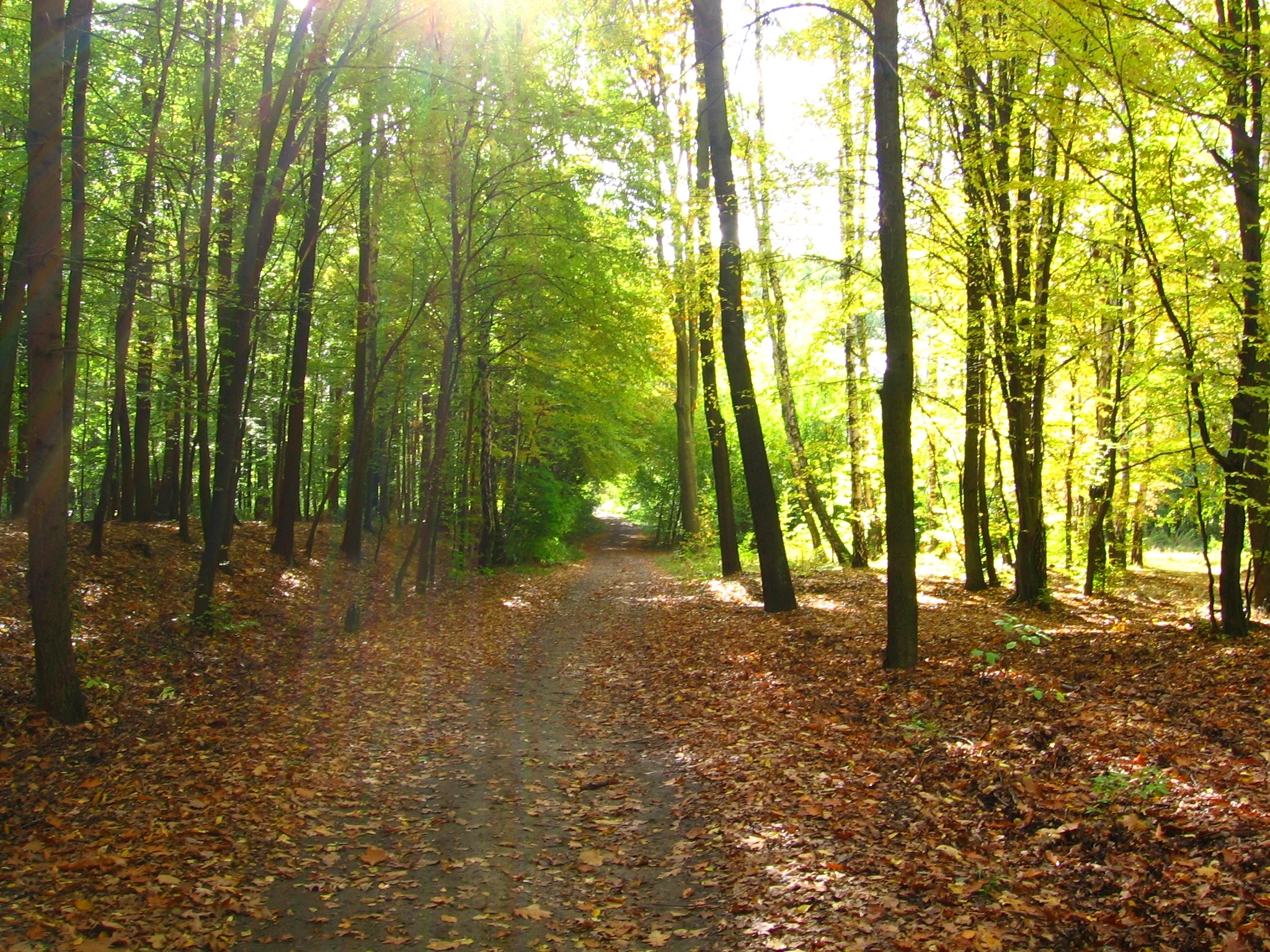 Łagiewniki Forrest in Autumn